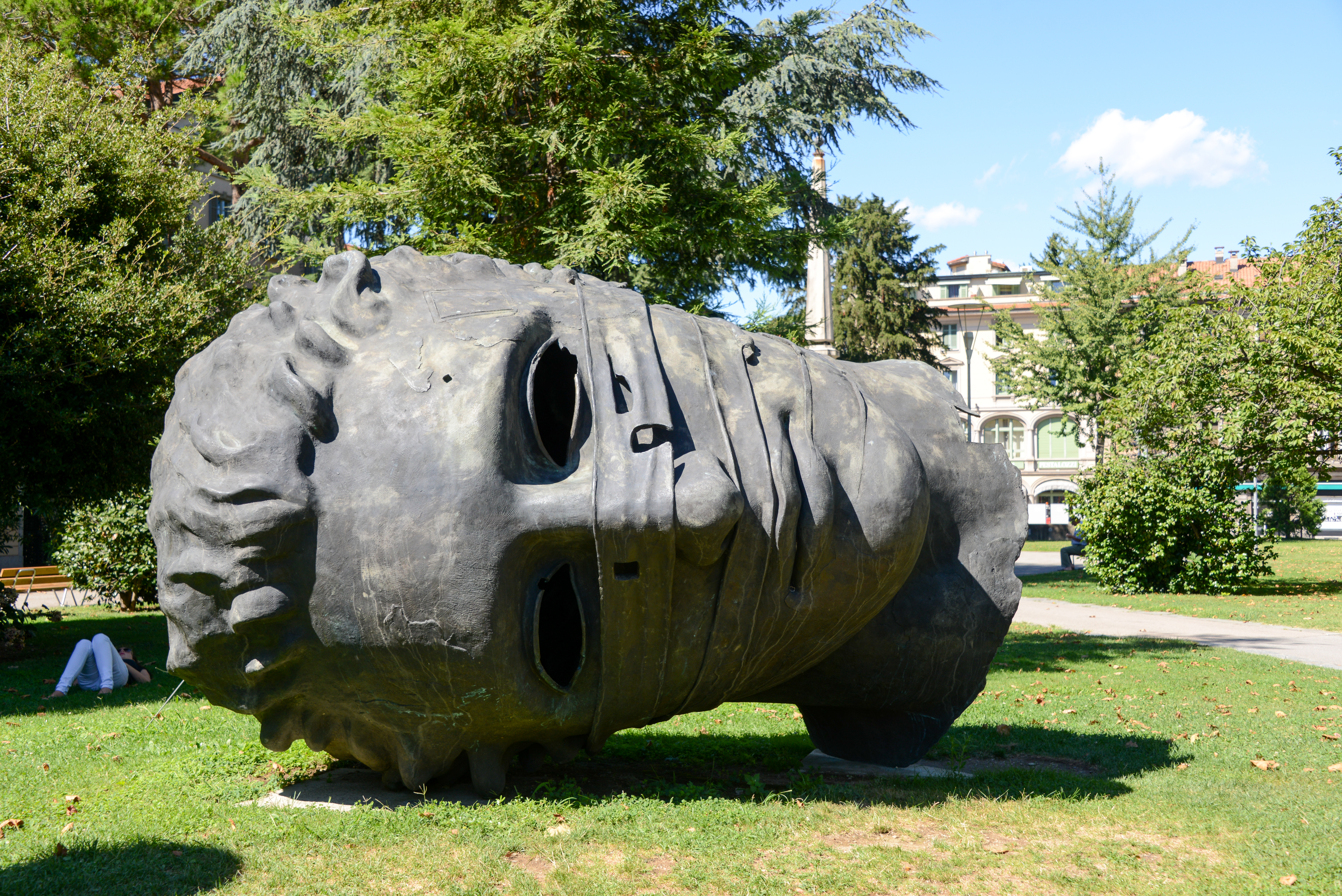 Eros Bendato, Art from Igor Mitoraj